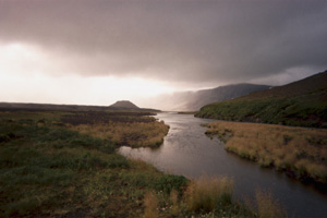 Aniakchak Crater, Alaska